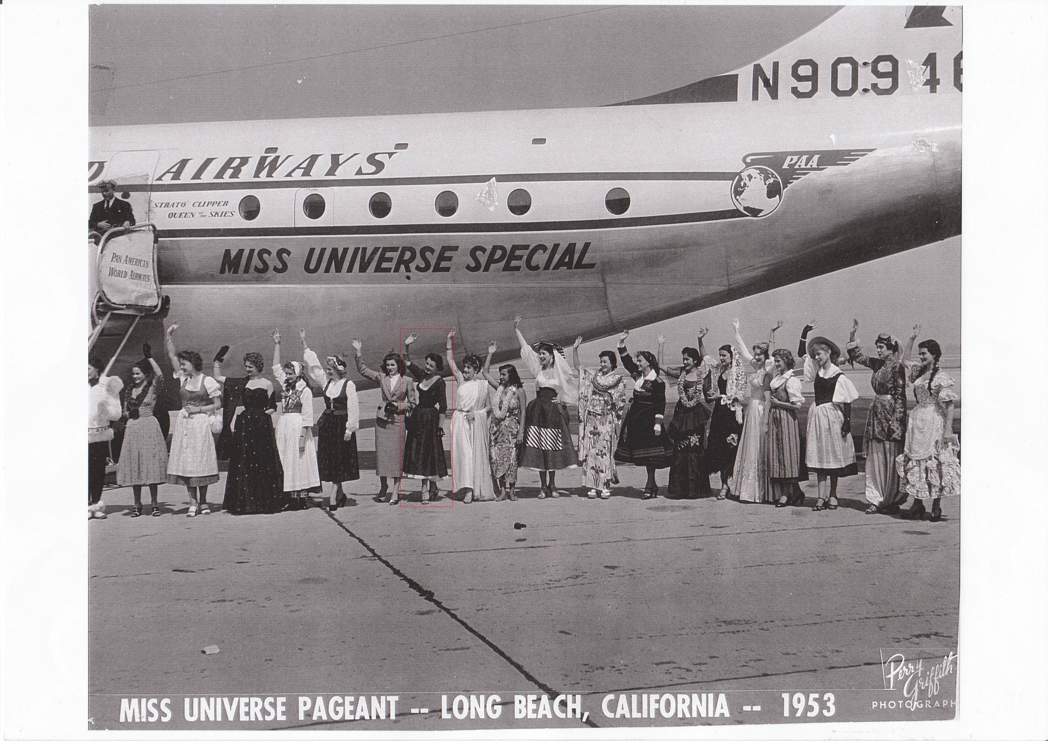 Miss Universe Contest in Long Beach